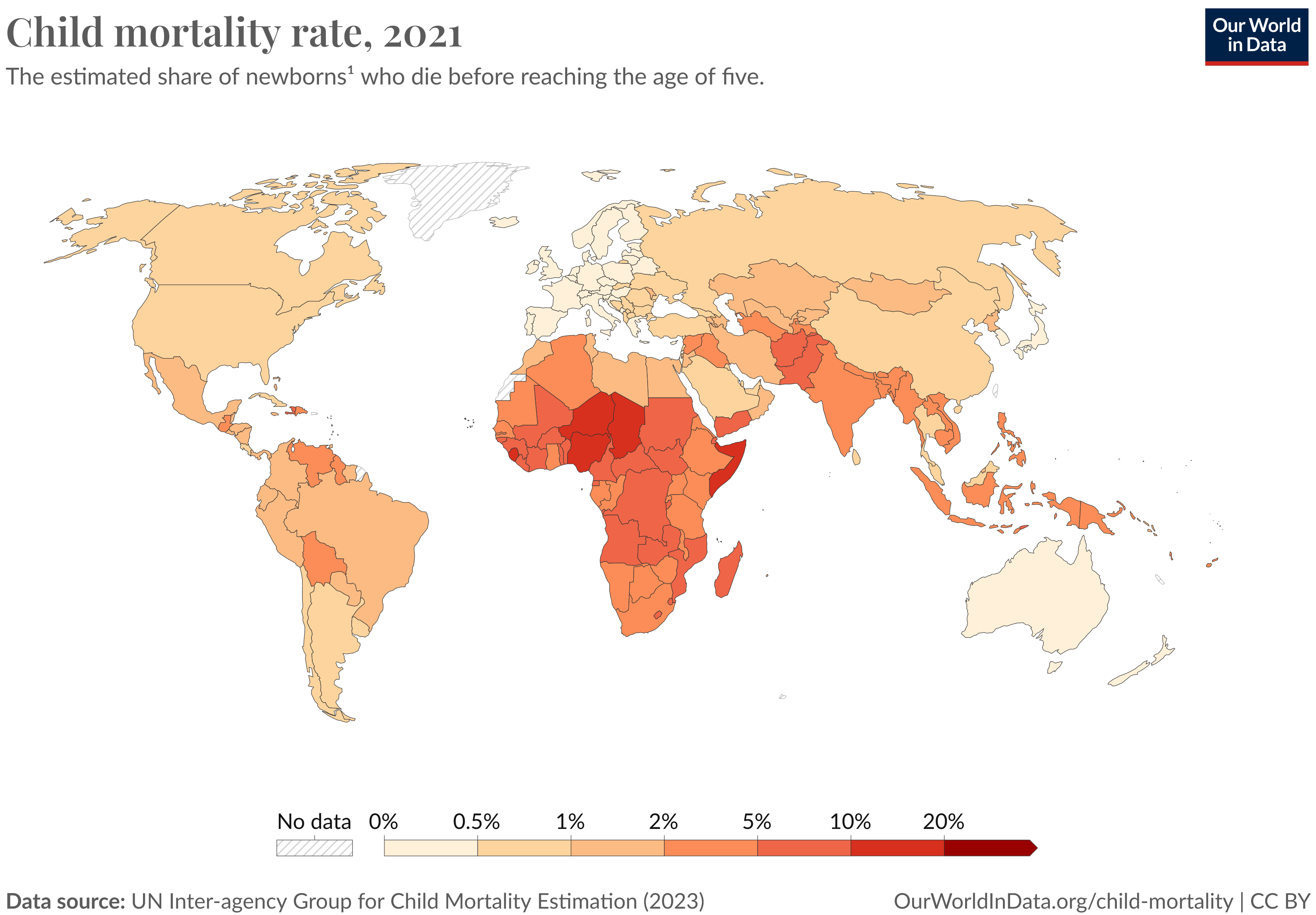 Share of children born alive that die before the age of 5